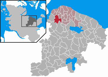 This map shows the area of the Gemeinde (municipality) Probsteierhagen in the Kreis (district) Plön, Schleswig-Holstein, Germany.